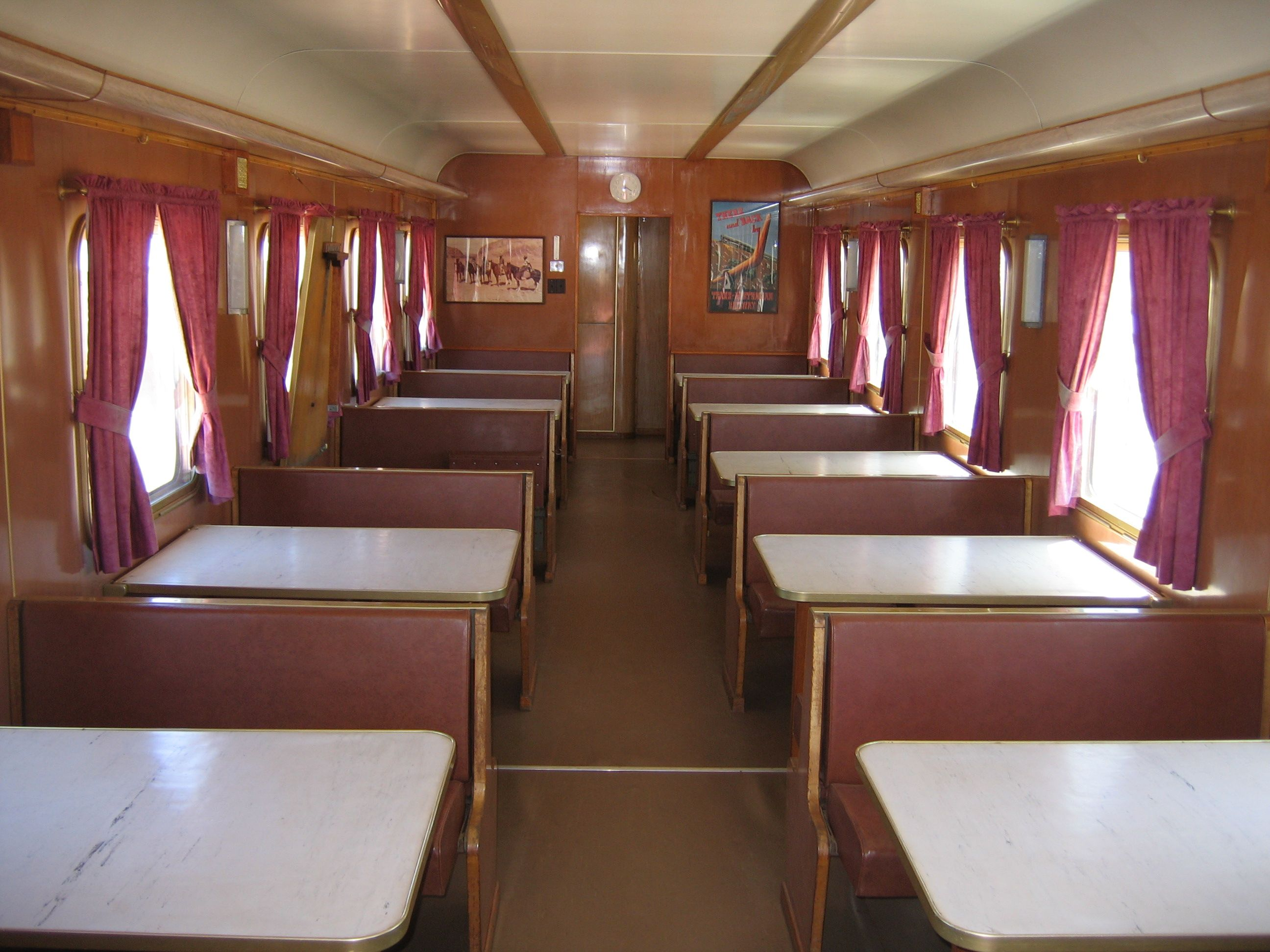 Restaurant car of old narrow-gauge The Ghan-train, Museum Alice Springs